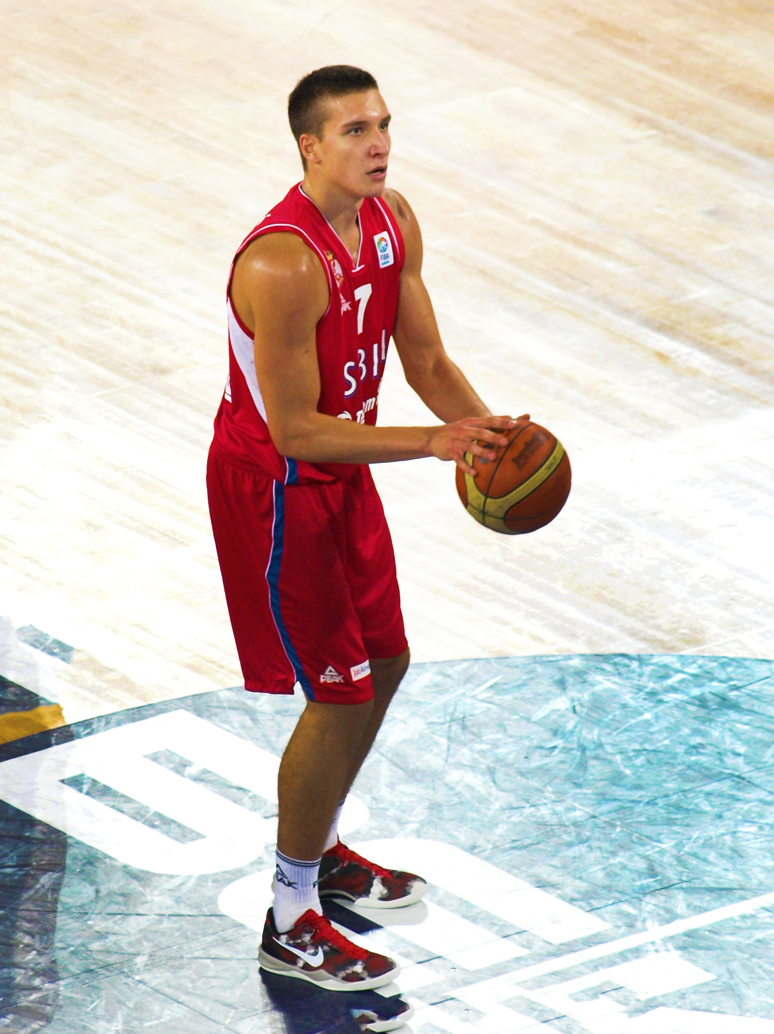 Bogdan Bogdanović, Eurobasket 2013.